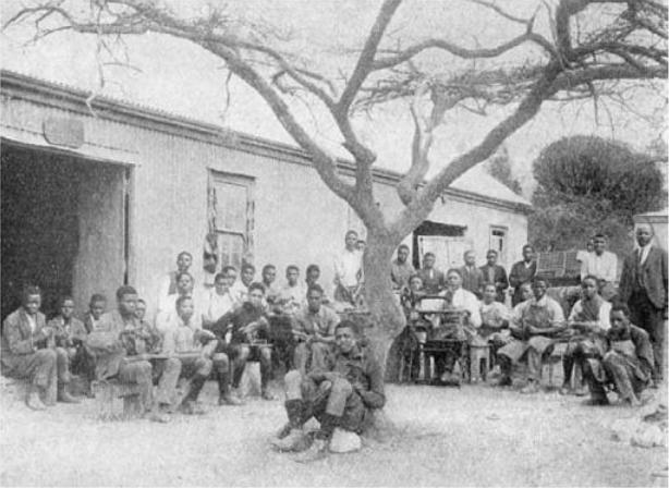 Ohlange Shoemaking class John Dube on the right Ohlange High School from First President: A Life of John Dube, Founding President of the ANC By Heather Hughes